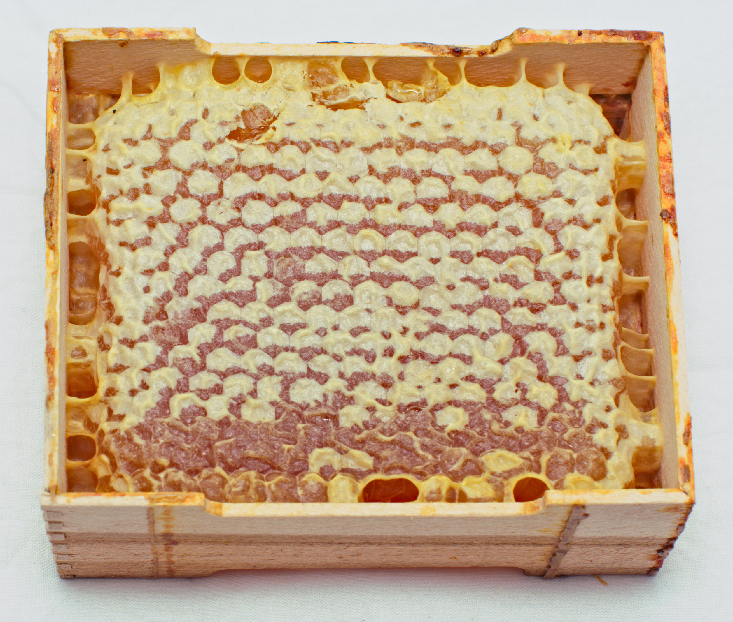 Honey in honeycombs